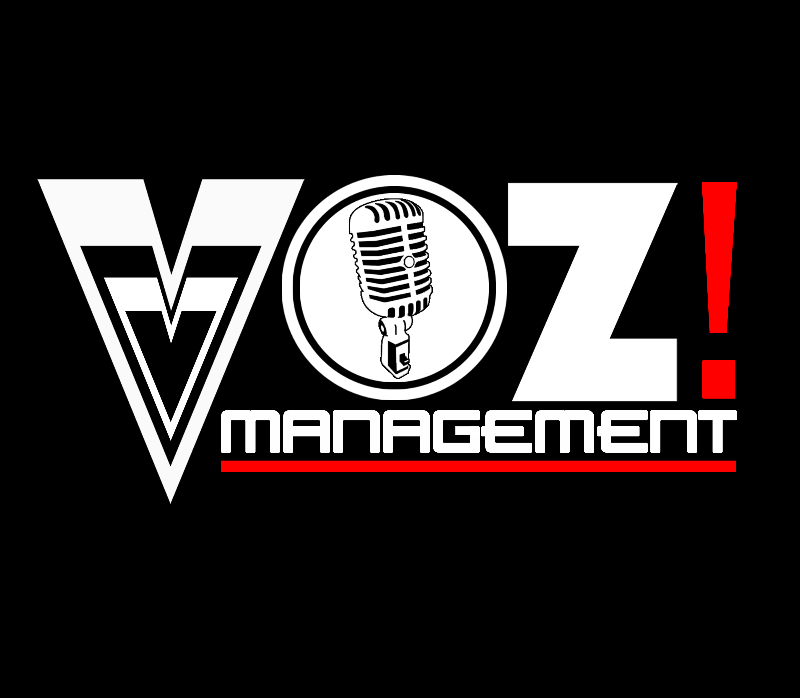 Voz Management logo